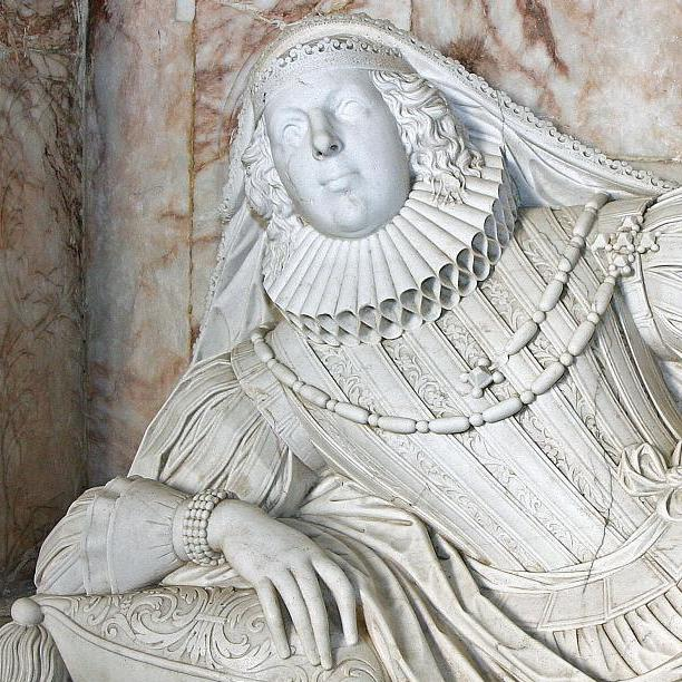 Monument to Dame Katherine Paston 1628.